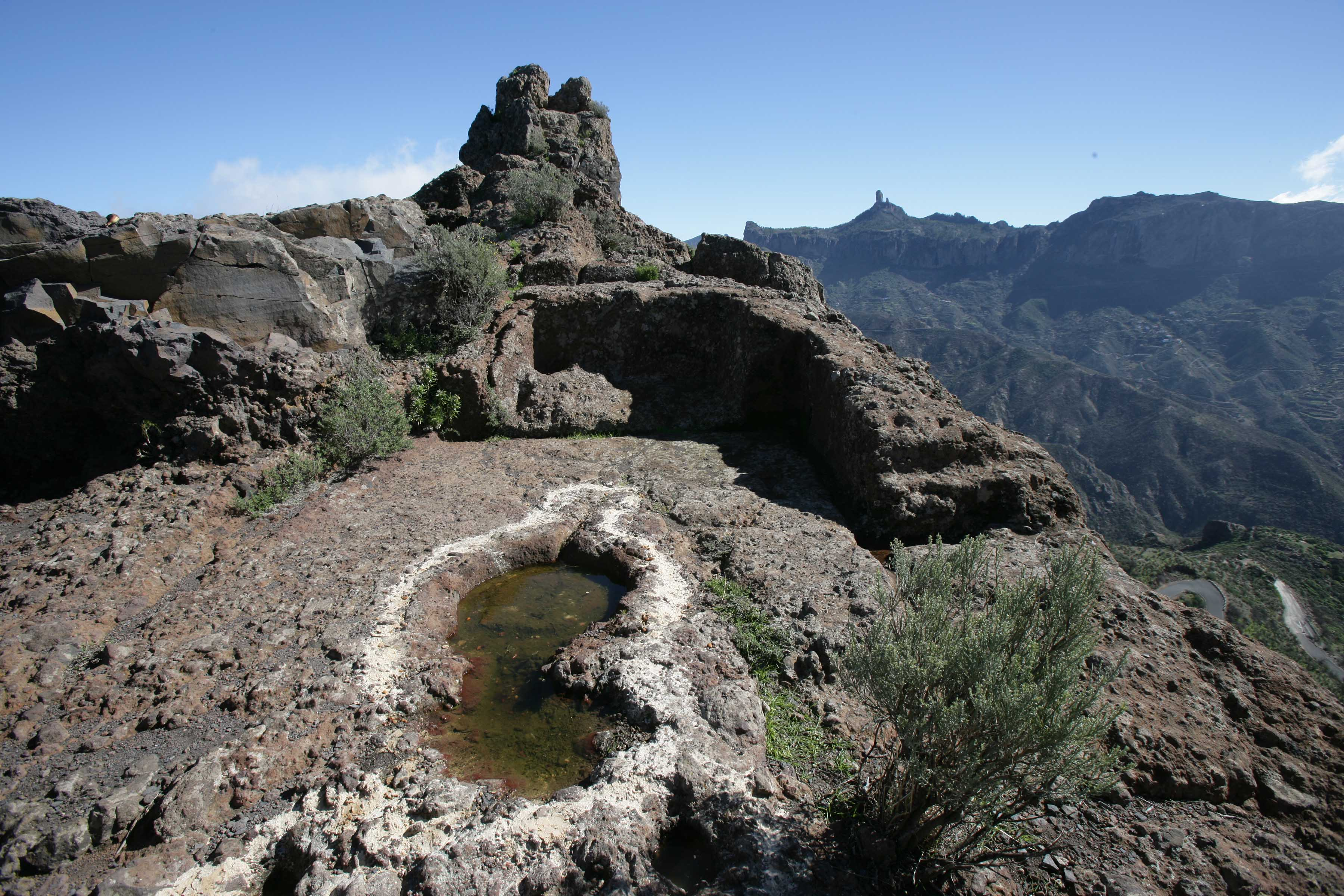 Bentayga Rock, Spanish municipality of Tejeda, Gran Canaria, Canary islands. This is at the foot and on the east side of Bentayga Rock itself; looking east, with Roque Nublo in the background. Long considered a cultual place, this may simply be two houses built subsequently, with the second house reusing the western half of the floor of the first (smaller and higher) house. The so-called "almogarén" in the middle is on the same design and approximate dimensions of inside fireplaces in dwellings of that time, notably at the Painted Cave site in Galdar.